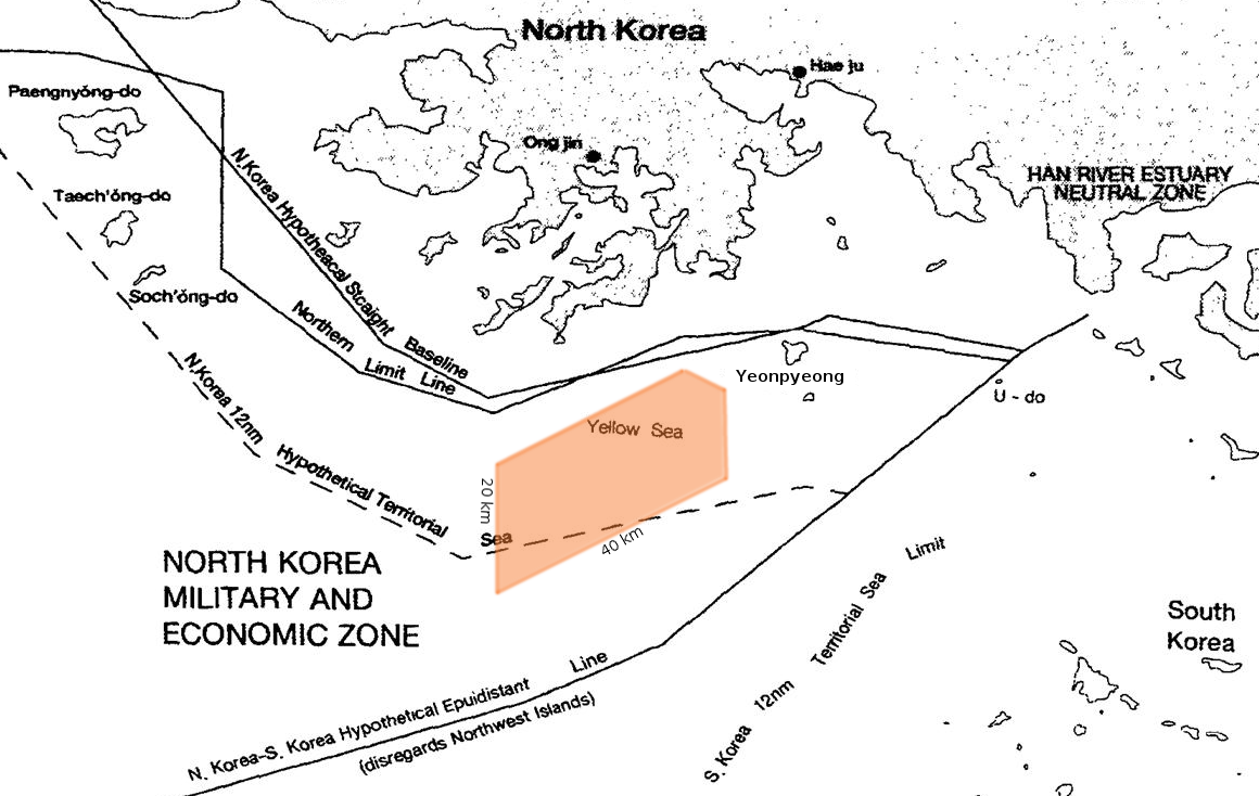 Yeonpyeong Island live firing range, showing position in relation to the Northern Limit Line and a hypothetical North Korean 12 nautical mile Territorial Waters, when disregarding the north west UN Command islands. The live firing range is approximately 40 km wide by 20km long. The position and details of the firing range are taken from sources: [1] [2] [3]